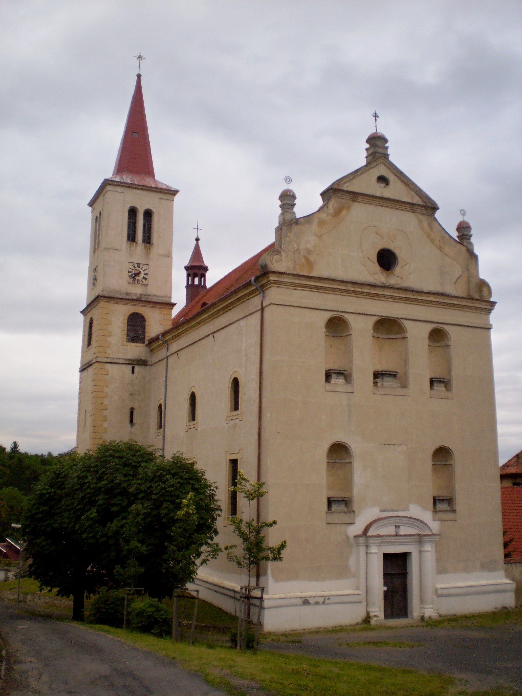 Church of Saints Peter and Paul in Žitenice (near Litoměřice, North-Western Bohemia)